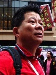 Photo of Michael MAK at the New Year Day Parade for Democracy taken at Central, Hong Kong